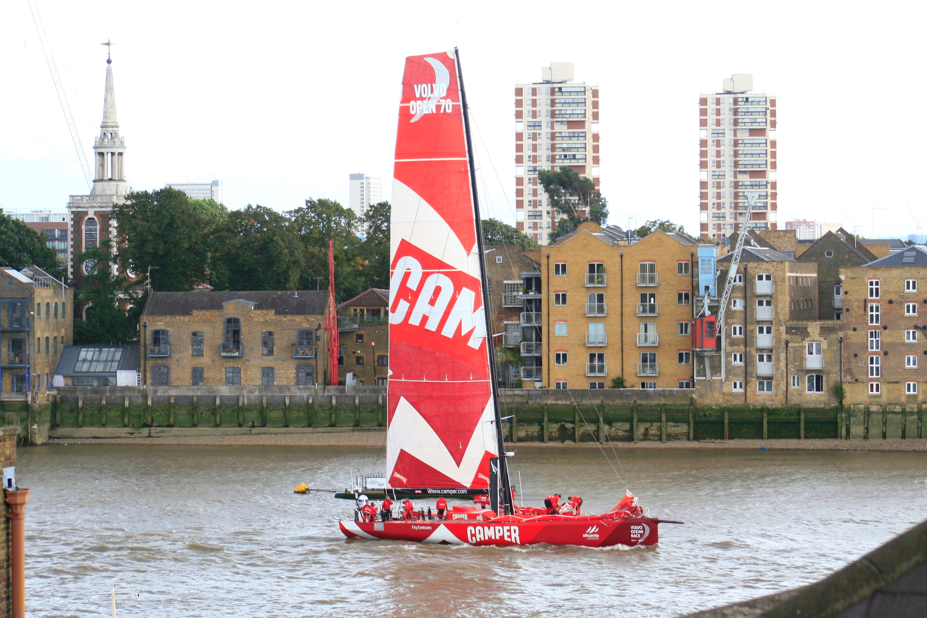 Camper Emirates Team Racing Yacht Stopping in London for a quick tour after completing the 11th edition of the round the world Volvo Ocean Race. After passing my flat in Wapping it passed through Tower Bridge and moored briefly in the Upper Pool before turning around and leaving back through the bridge.